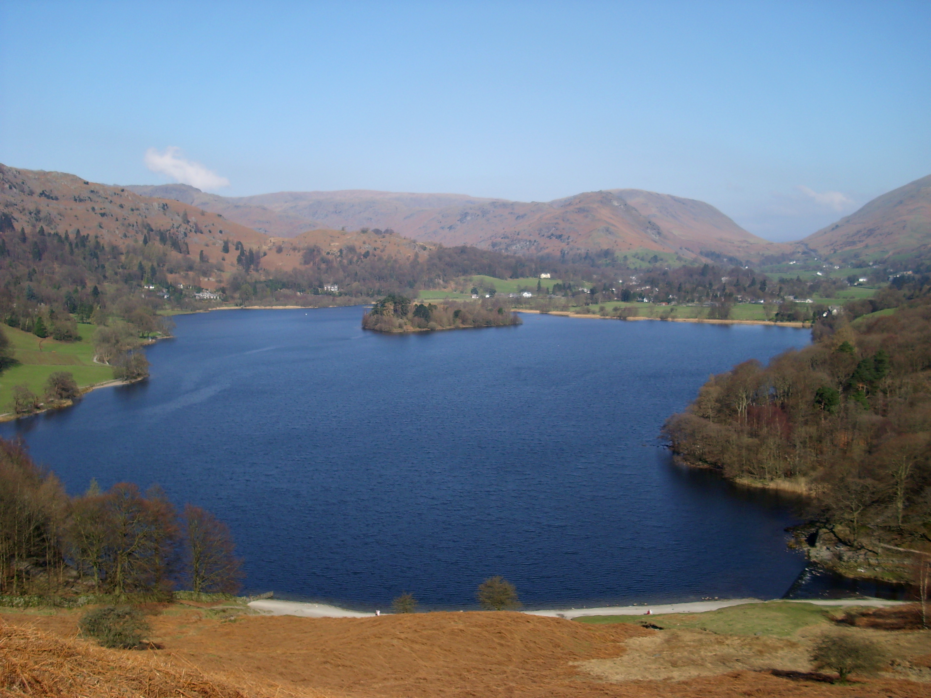 Grasmere Lake viewed from Lougrigg Terrace in April 2007. This lake is located in Cumbria, England.